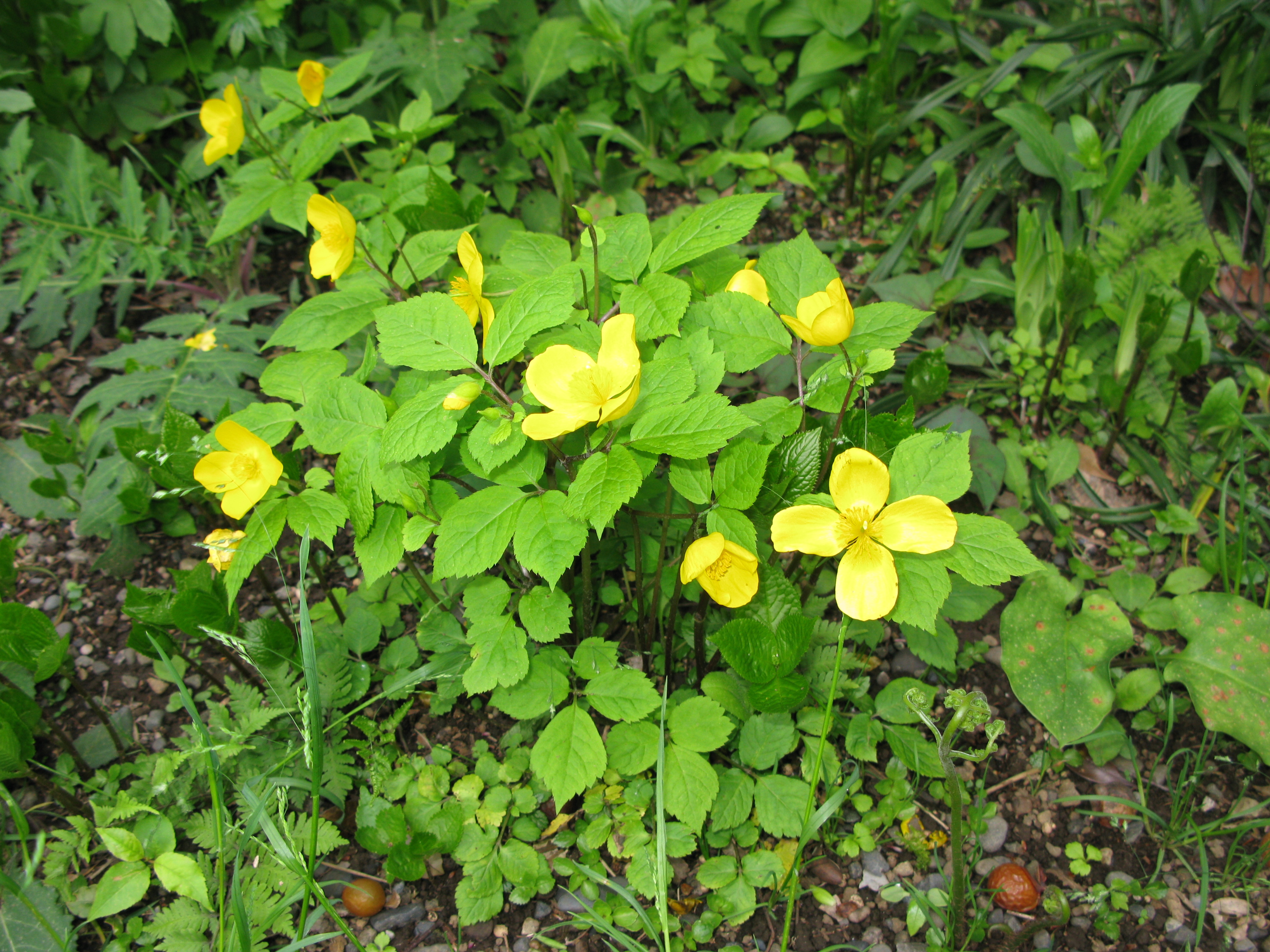 Hylomecon japonica, Institute of Nature Study, Tokyo, Japan